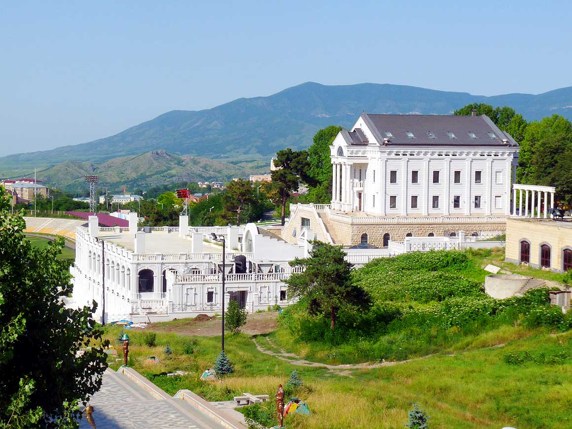 Vallex Garden Hotel, Stepanakert, Republic of Artsakh